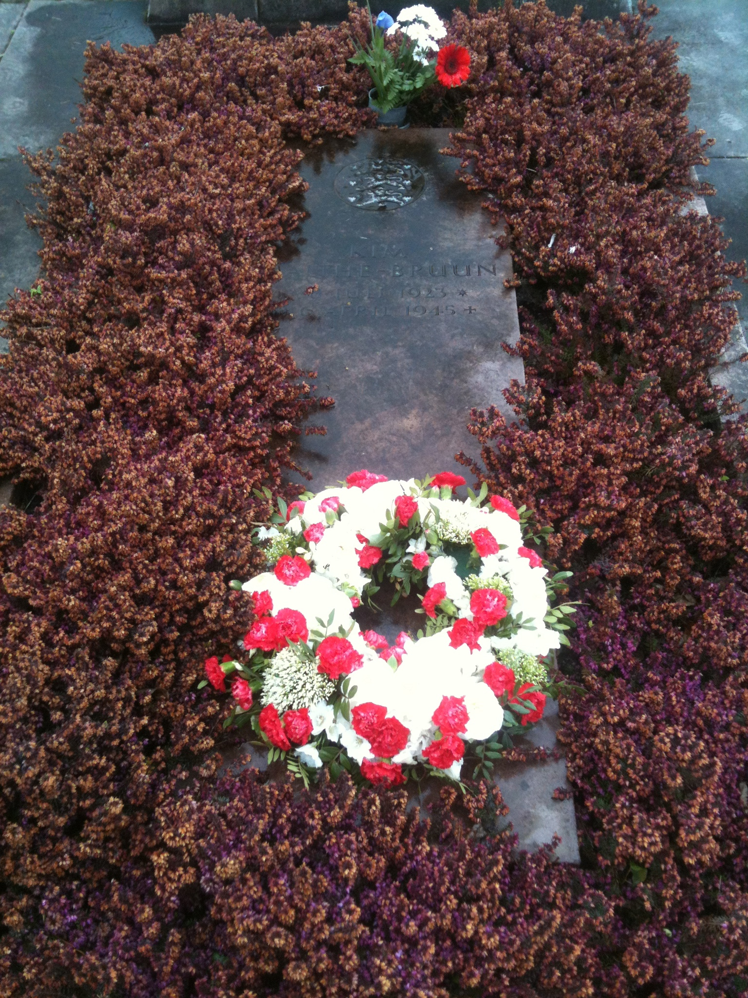 Tomb of Kim Malthe-Bruun in Mindelunden i Ryparken